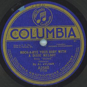 Rock-A-Bye Your Baby With a Dixie Melody / Alice I'm in Wonderland 78 rpm record label